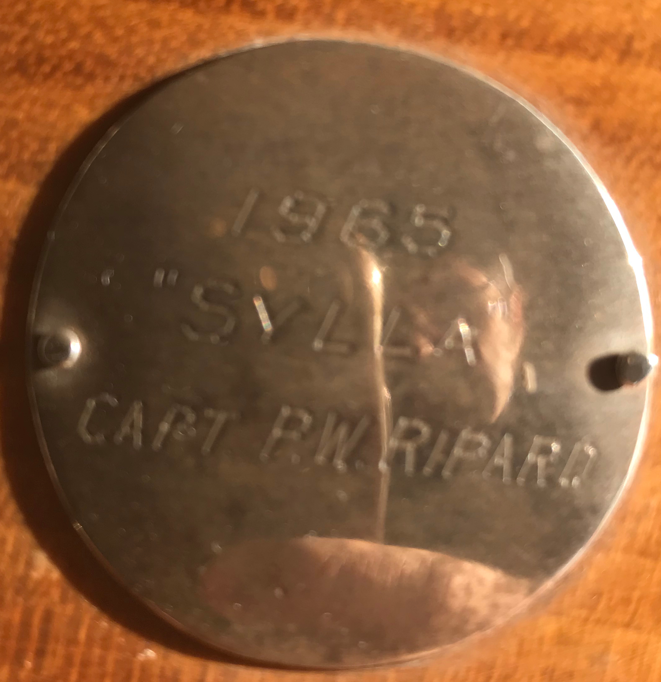 1965 Sylla P.W. Ripard - Patch on the Trophy